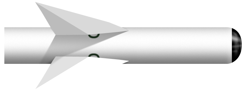 the Head of AIM-9B Sidewinder